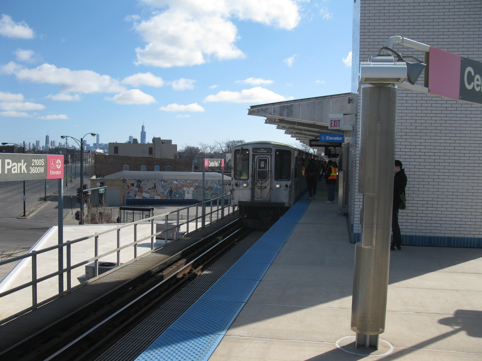 20110327 04 IRM Snowflake Special, Central Park Ave.